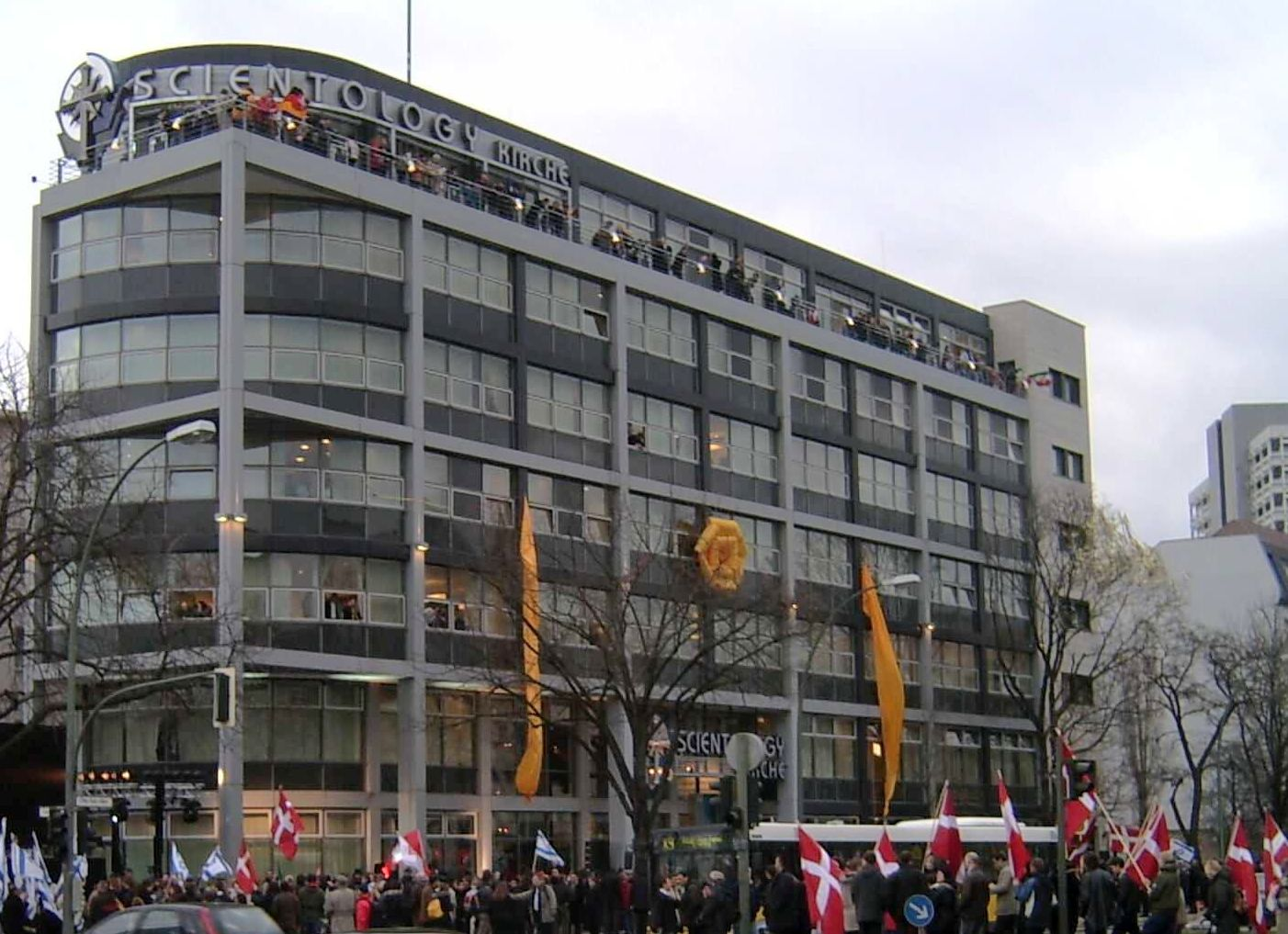 Scientology Church Opening Celebrations, Berlin January 2007